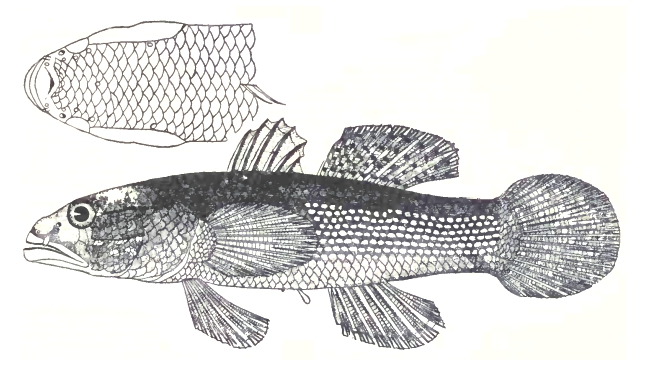 Northern mud gudgeon, Ophiocara porocephala (Valenciennes, 1837)